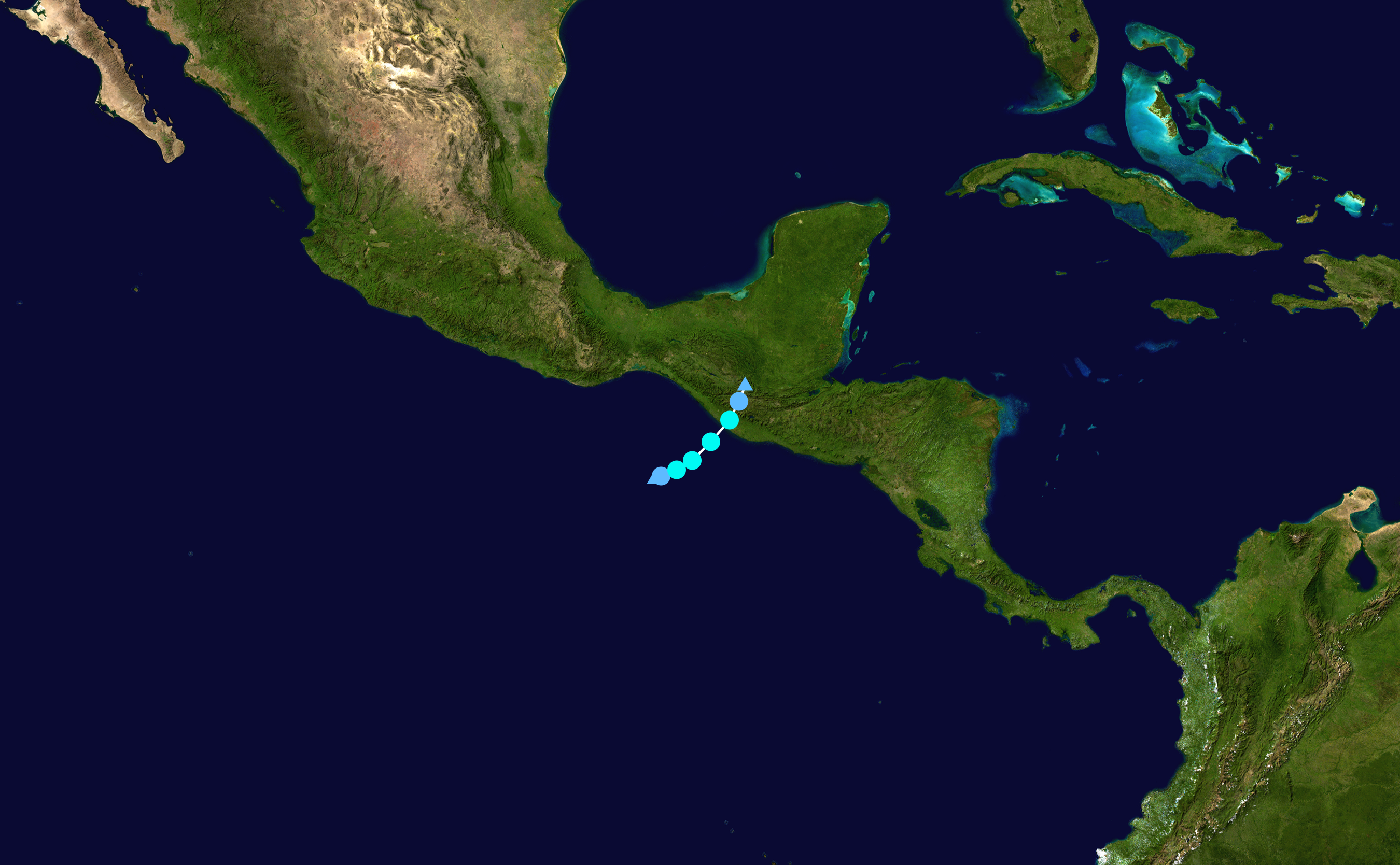 Track map of Tropical Storm Agatha of the 2010 Pacific hurricane season. The points show the location of the storm at 6-hour intervals. The colour represents the storm's maximum sustained wind speeds as classified in the Saffir–Simpson scale (see below), and the shape of the data points represent the nature of the storm, according to the legend below. Saffir–Simpson scale Tropical depression≤38 mph≤62 km/h Category 3111–129 mph178–208 km/h Tropical storm39–73 mph63–118 km/h Category 4130–156 mph209–251 km/h Category 174–95 mph119–153 km/h Category 5≥157 mph≥252 km/h Category 296–110 mph154–177 km/h Unknown Storm type Tropical cyclone Subtropical cyclone Extratropical cyclone / Remnant low / Tropical disturbance / Monsoon depression